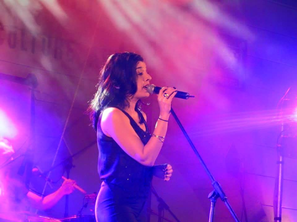 Dikla, during a performance in the Gay Pride of Beersheba, june 2015